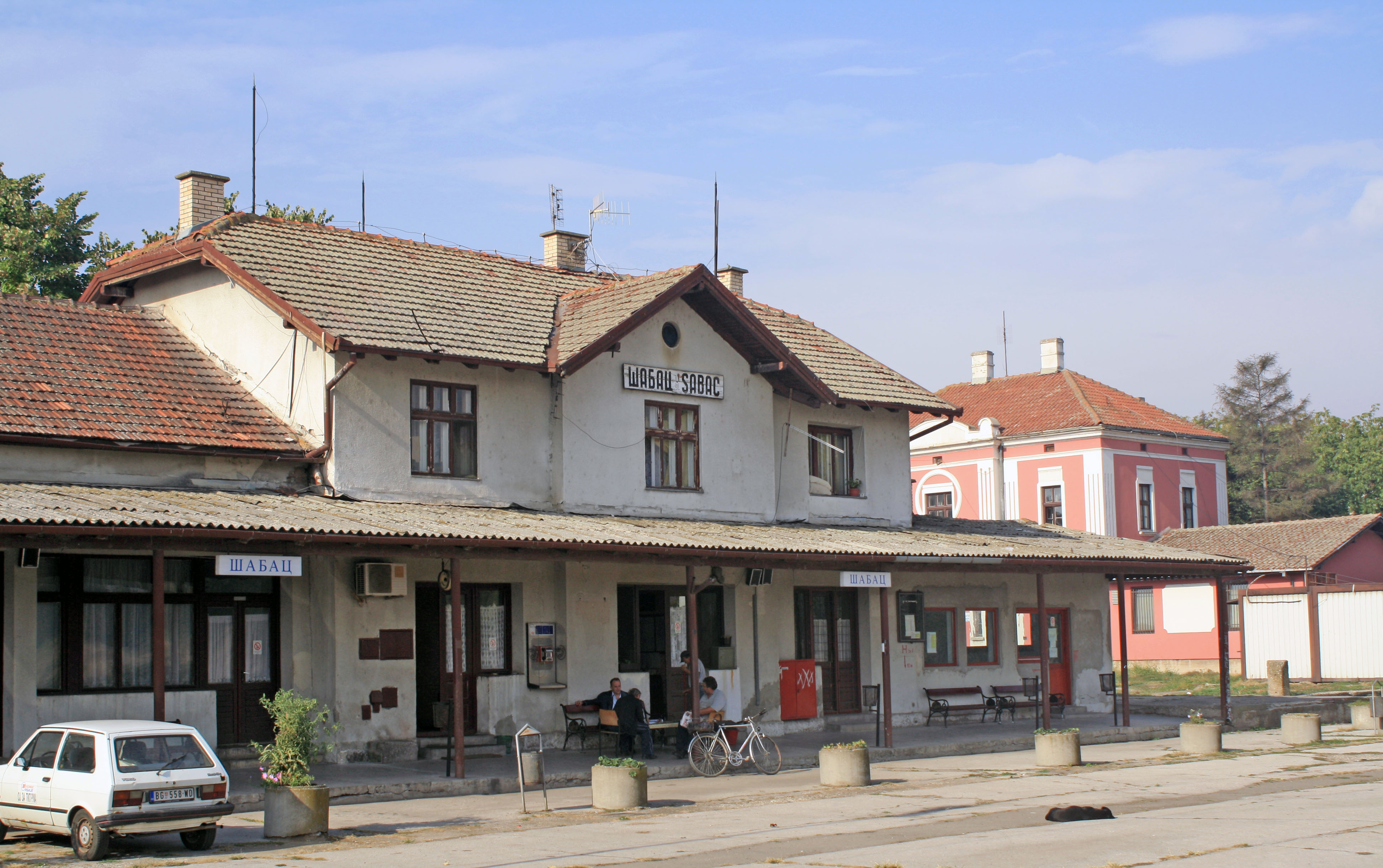 Šabac train station.